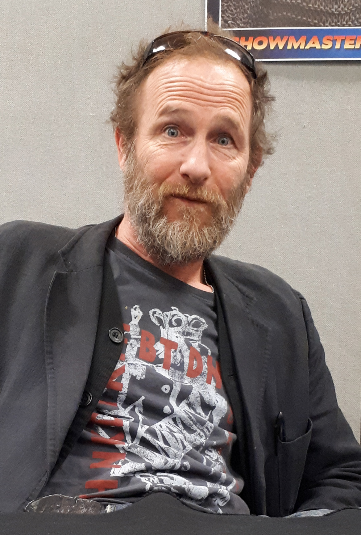 Actor Paul Kaye at London Film and Comic Con in July, 2018